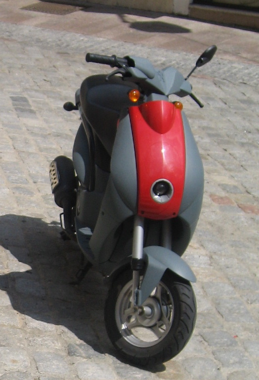 Peugeot Ludix Scooter